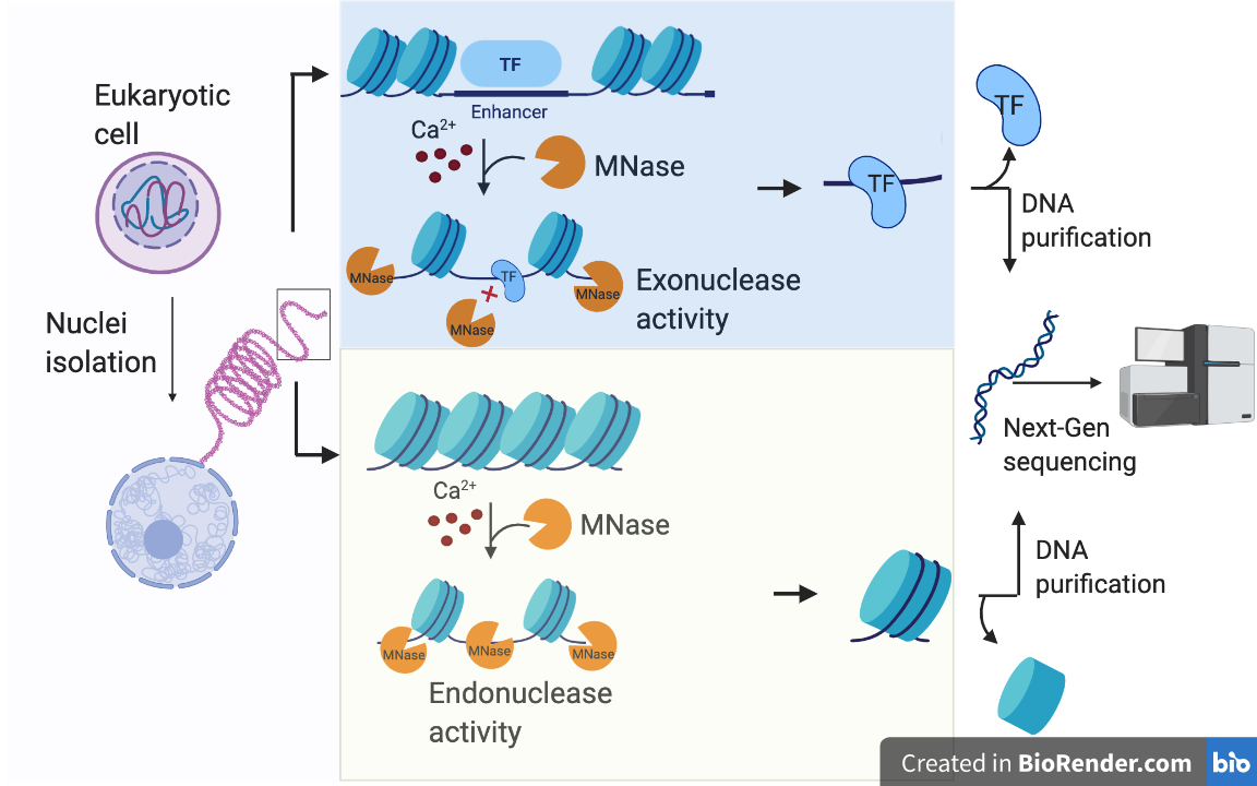 MNASE function